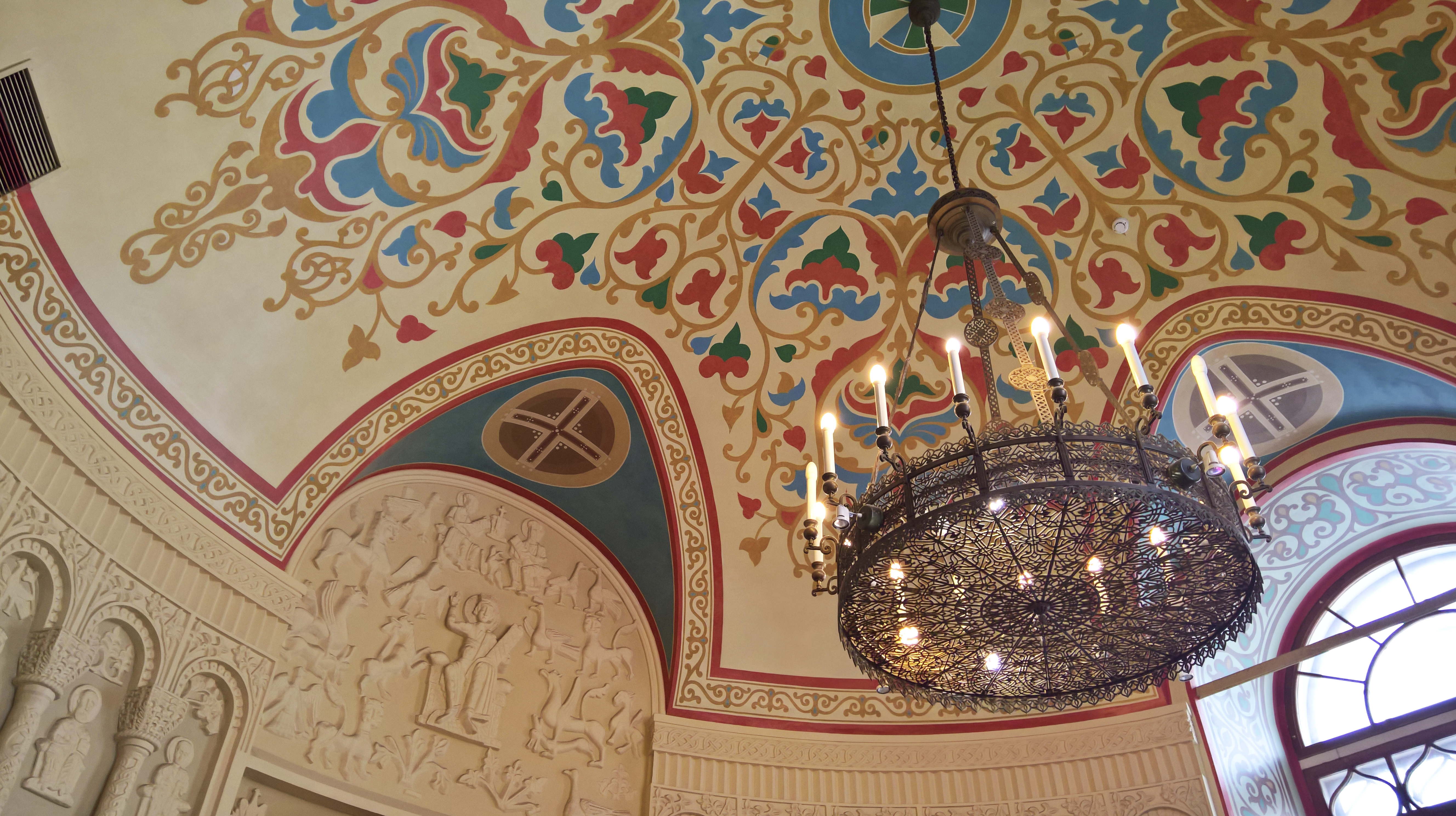 Декор потолка выставочного зала №10 Государственного Исторического музея. Бывший “Владимирский”, в настоящее время посвящён жизни Древнерусского государства в период феодальной раздробленности. Круглый зал угловой северо-восточной башни. Барельефы зала являются слепками Дмитриевского собора Владимира, роспись стен и мозаика скопированы из Успенского собора.